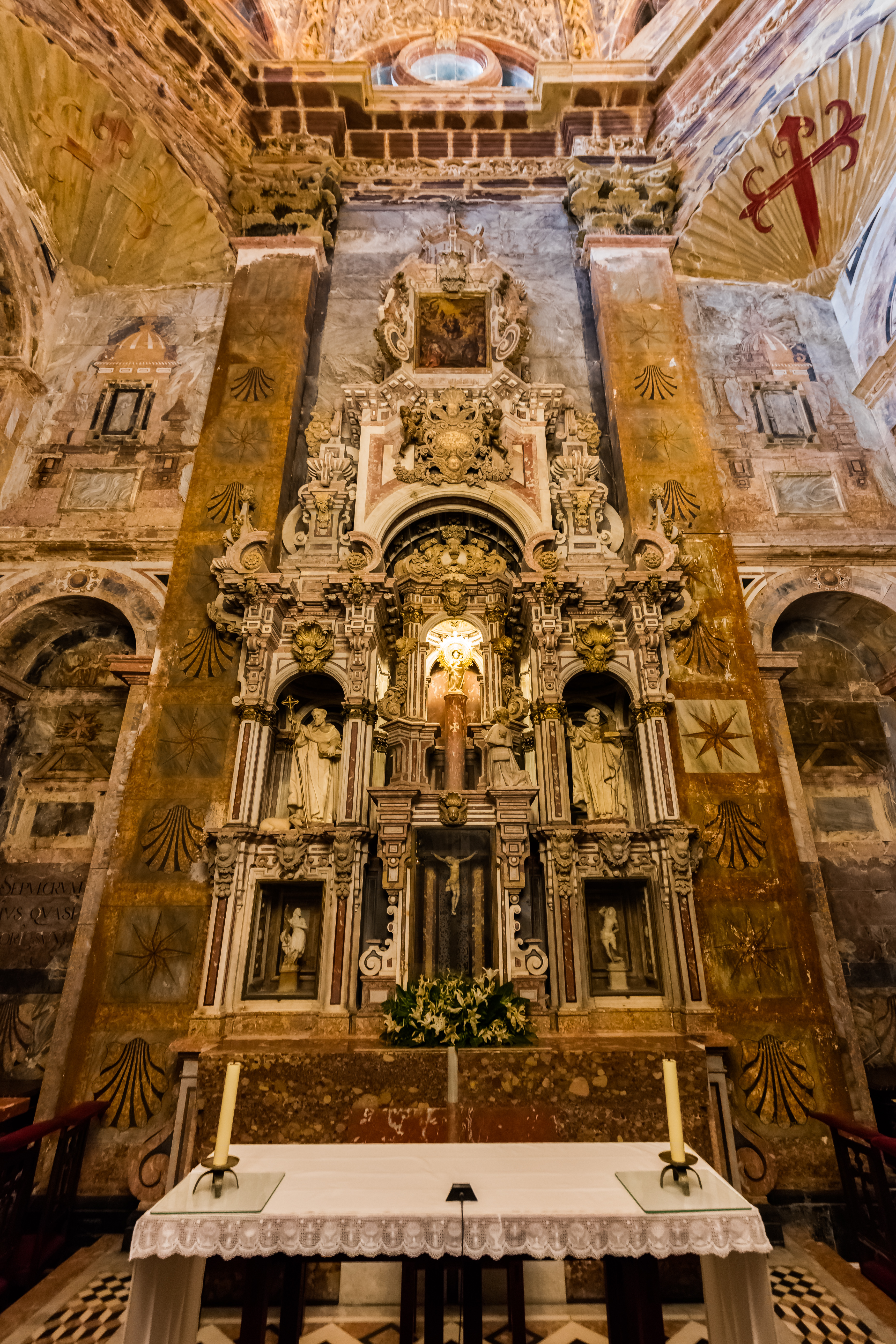 Cathedral, Santiago de Compostela, Spain